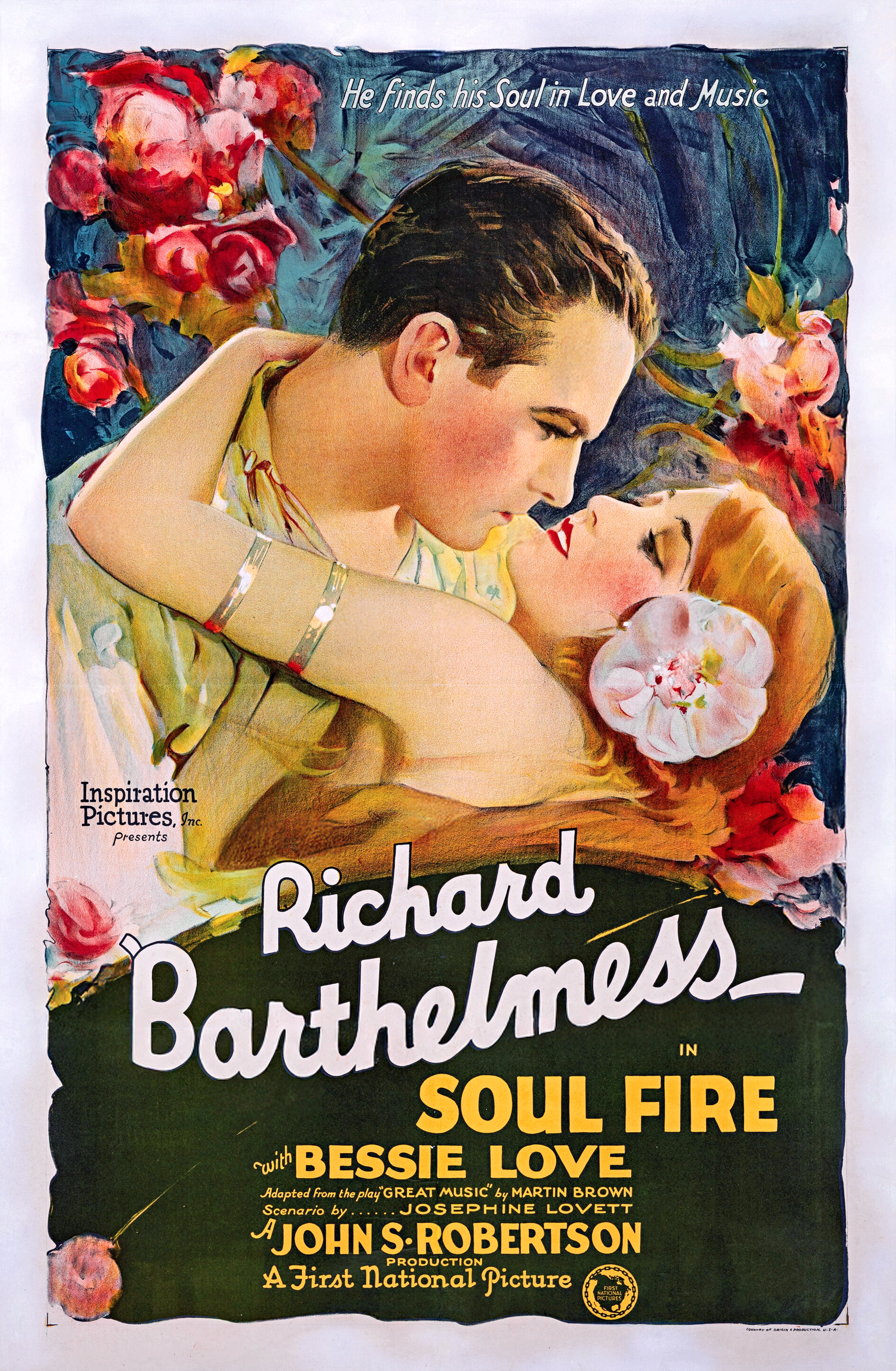 Poster for the 1925 film Soul Fire. Renewal searches were done in both film and artwork for the years 1952 and 1953 There were no listing for the title in films and no listings for First National in artwork. There's no evidence of continuing copyright for the film or materials pertaining to it.